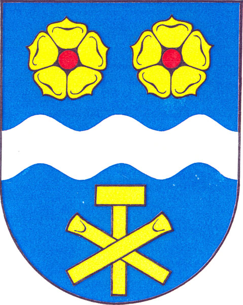 Coat of arms of Jakubčovice nad Odrou, Nový Jičín District